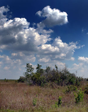 Photo by Mike DeLeonardis Removed from the following pages: Everglades --OrphanBot 15:56, 23 February 2006 (UTC)